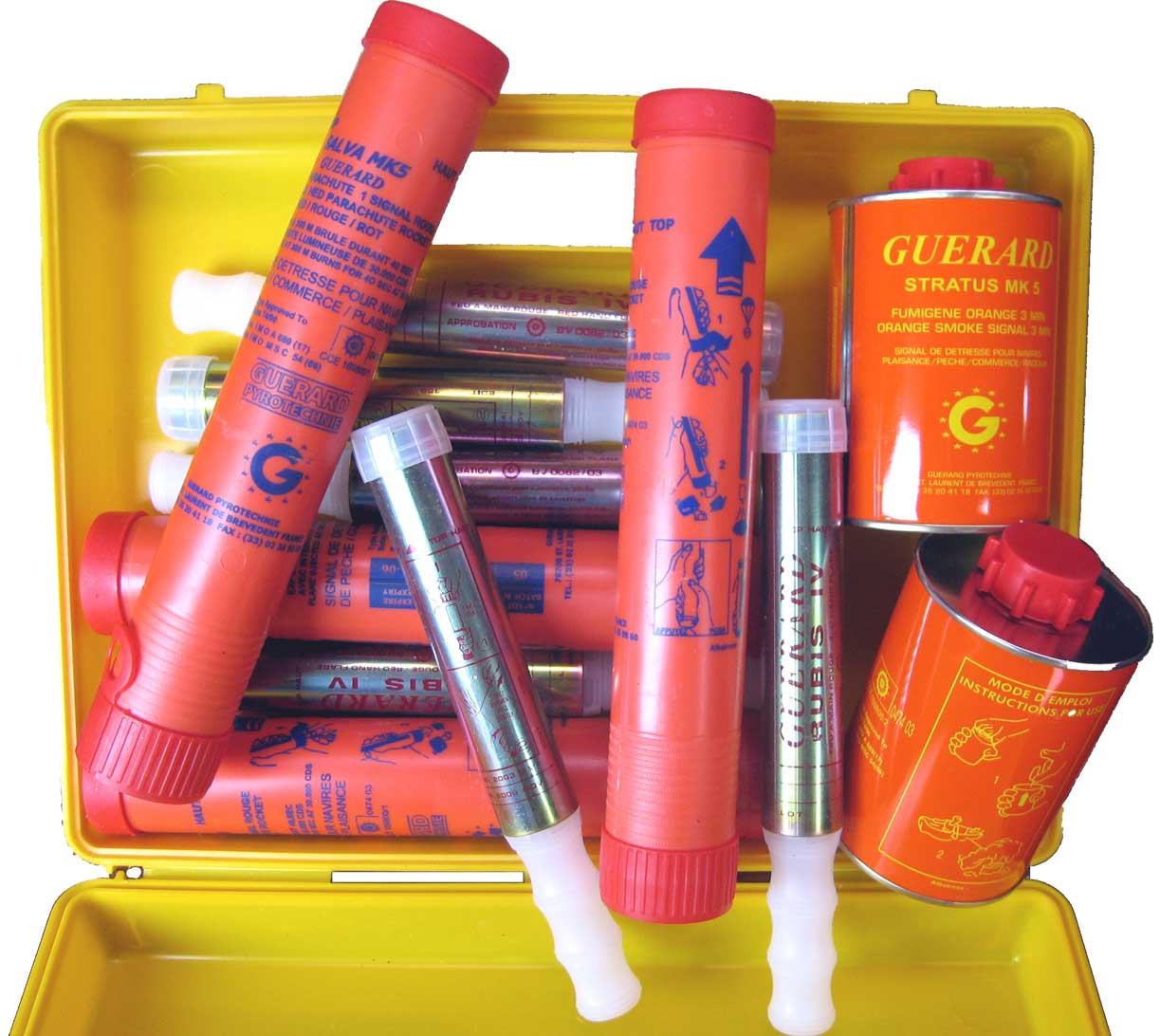 Box containing different distress signals (rockets, hand flares, smoke signals)